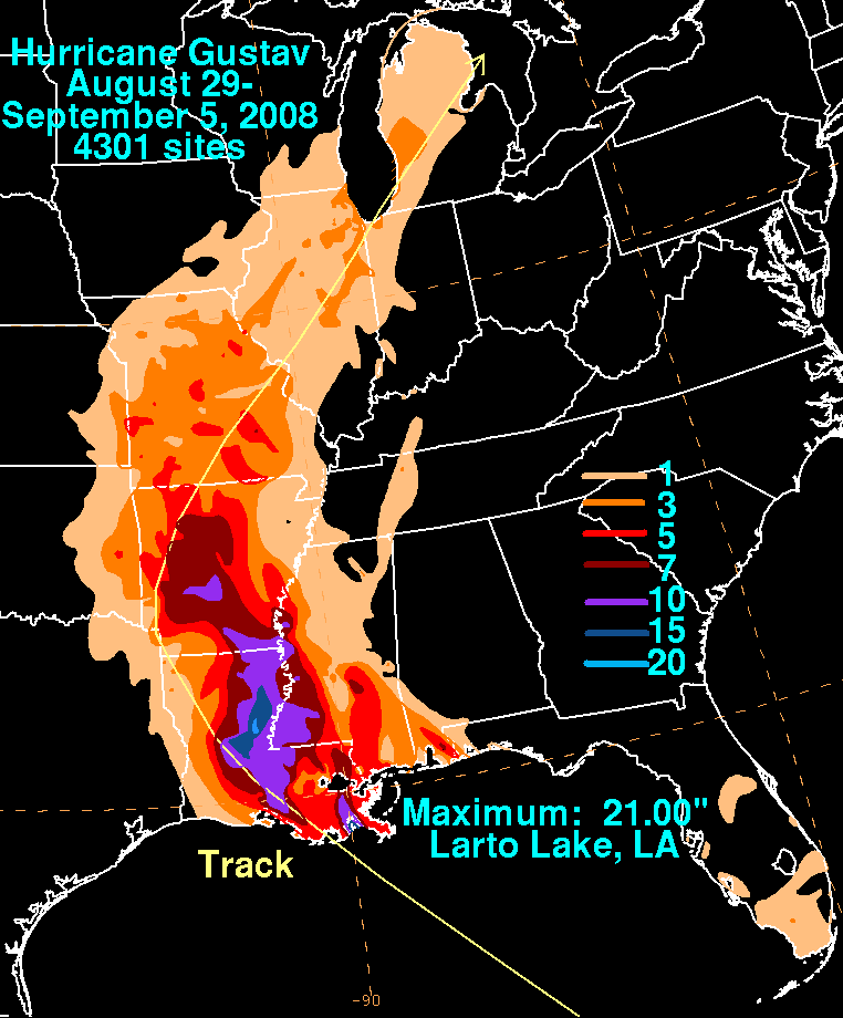 Rainfall produced by Hurricane Gustav during August and September 2008.